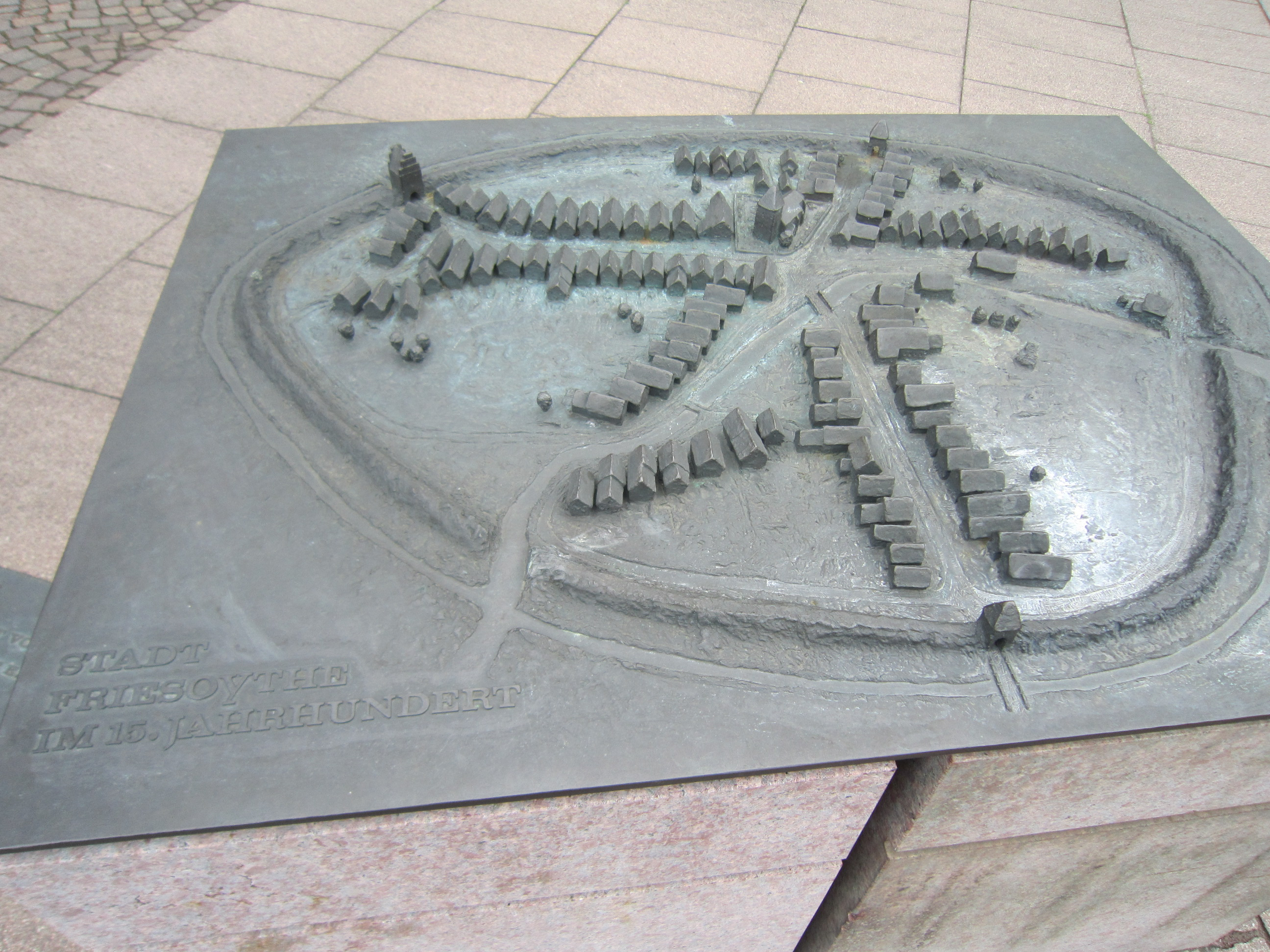 Bronze city model of Friesoythe in the 15th century by Albert Bocklage